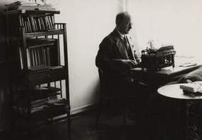 Polish writer, translator, journalist and social worker.